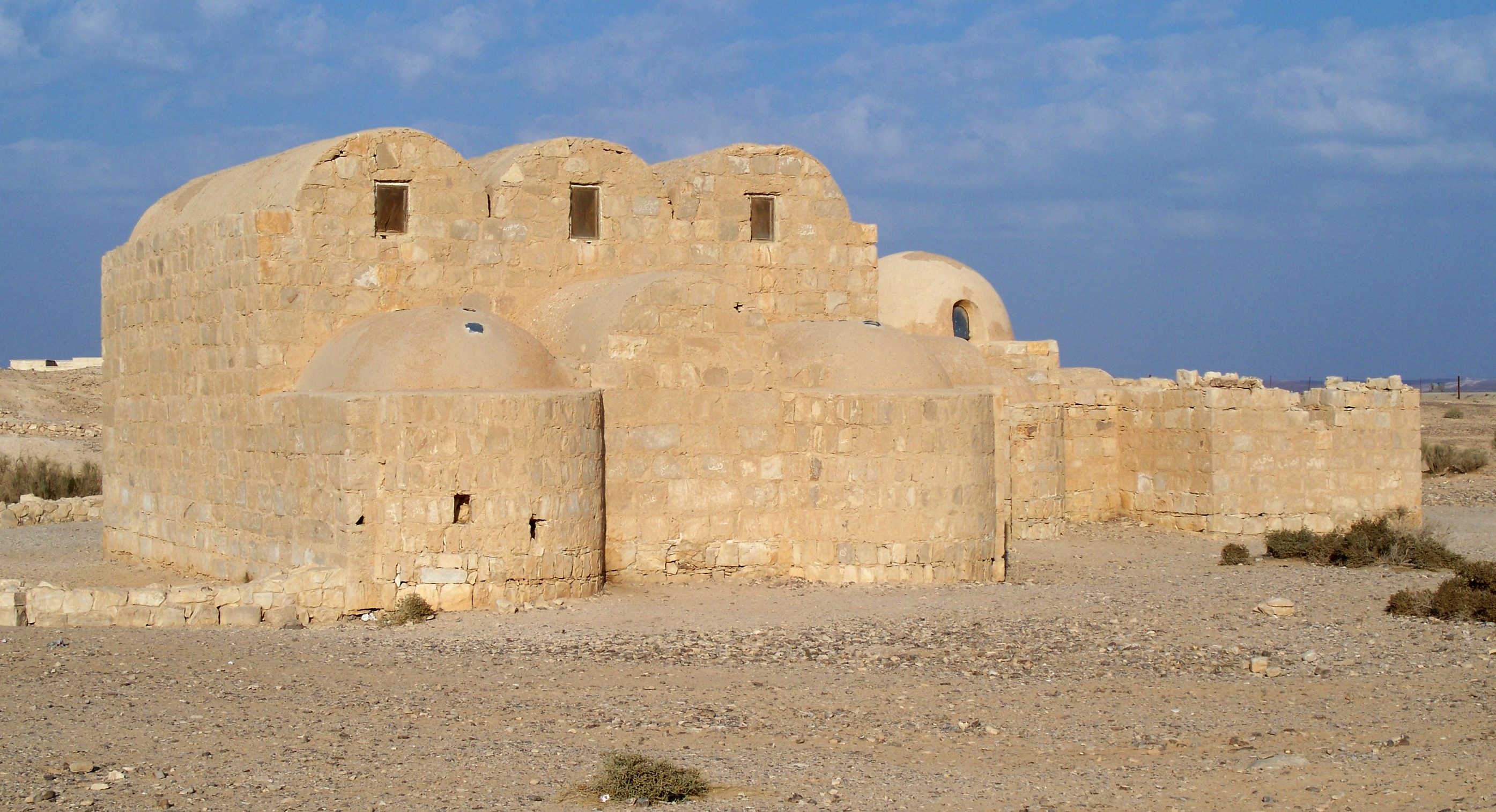 Quseir Amra in Jordan.